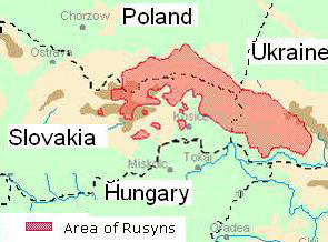 Map of territory of Rusyns